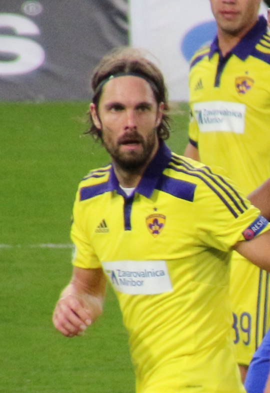 Marko Šuler with NK Maribor in 2014